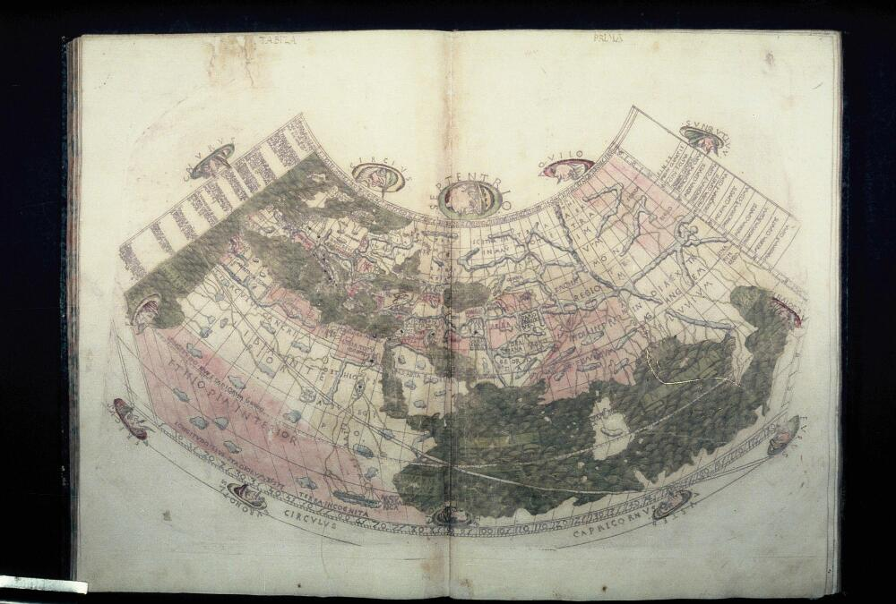 The Bologna edition of Ptolemy's Geography: a world map after Ptolemy's first projection.